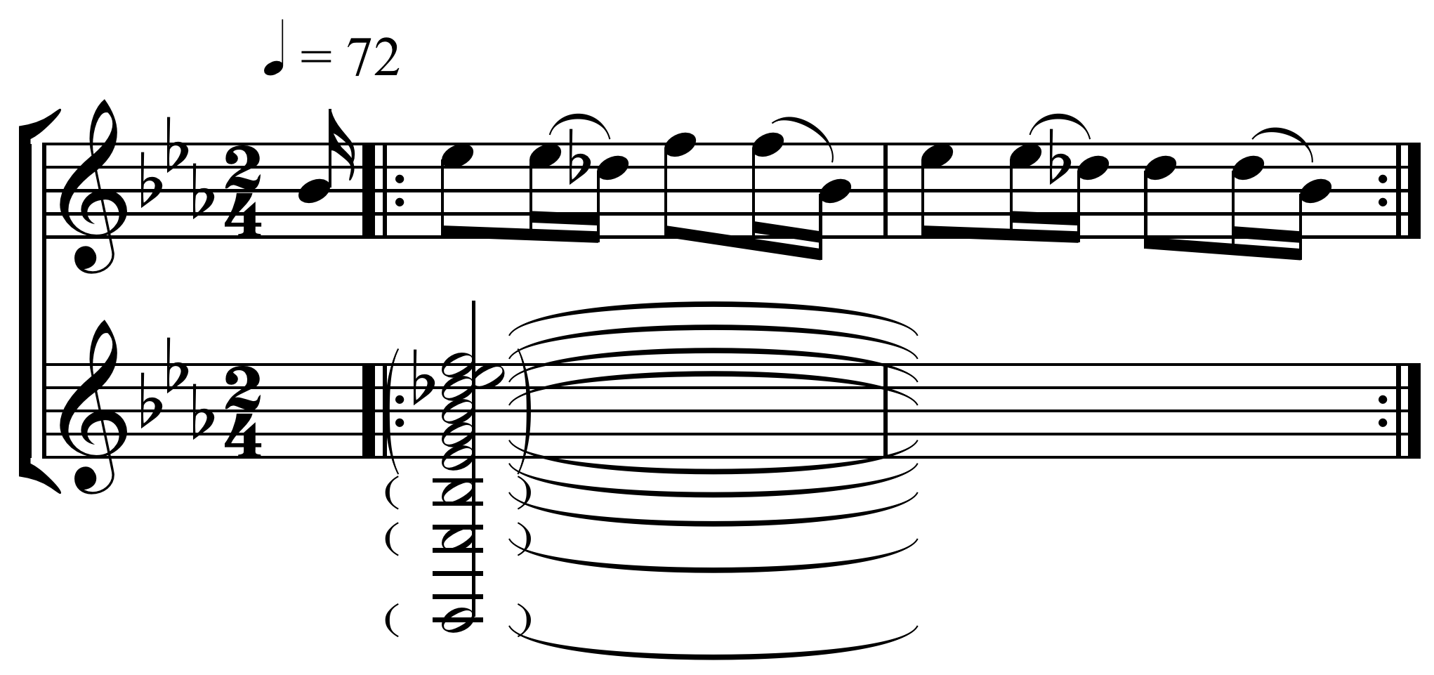 After Kirby 1934, 190 as in Lucia, Christine; ed. (2009). The World of South African Music: A Reader, p.36. Cambridge. ISBN 1904303366. Skillful melody (upper staff) produced by a player on the lesiba, a musical bow, without grunts of indefinite pitch on the exhalation (which would make breathing easier). The notes of the harmonic series often shade the melody notes (lower staff).